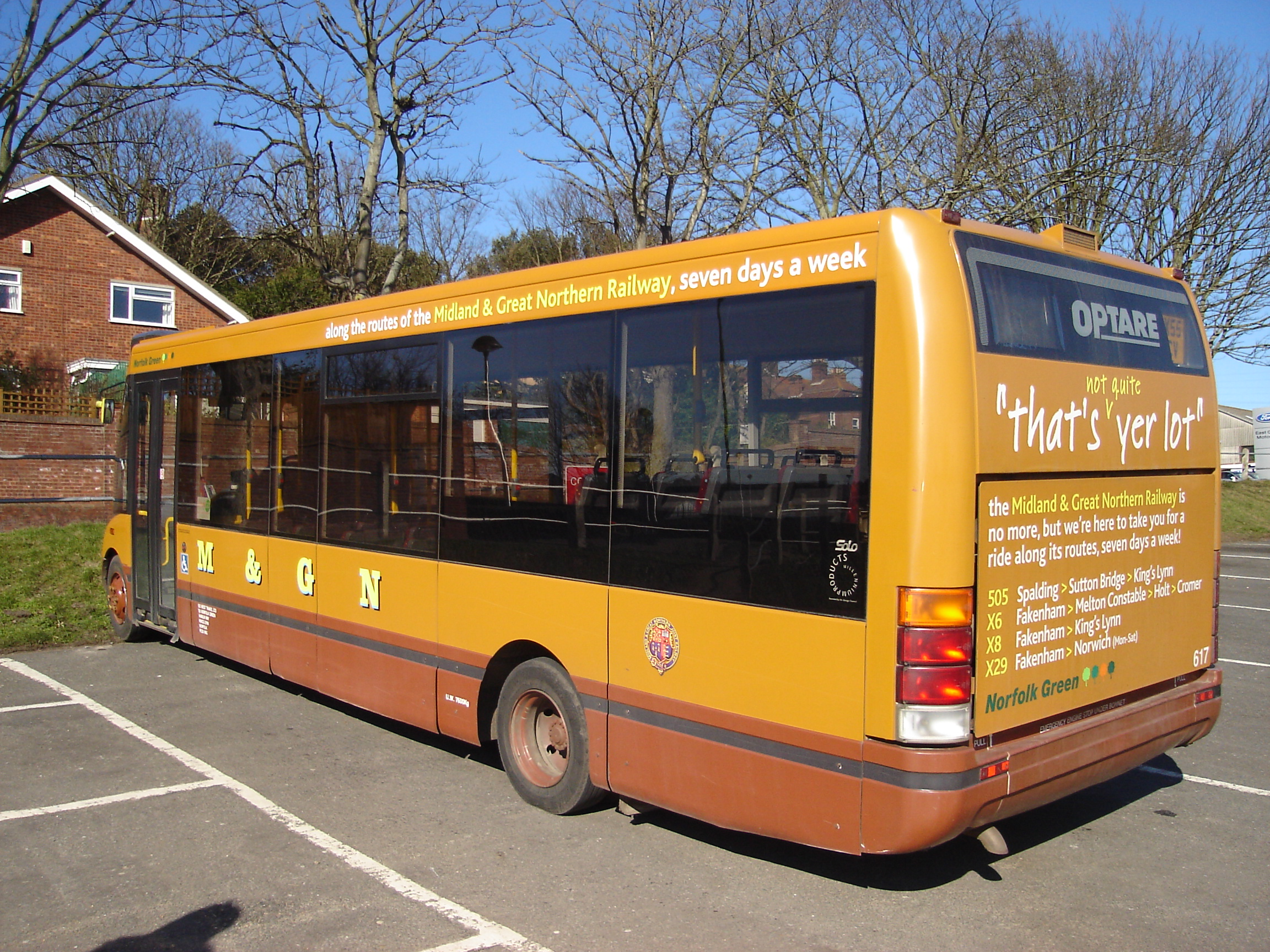 Norfolk Green bus 617 (reg. MX55 WCV), a 2005 Optare Solo M920 midibus, pictured in Cromer, Norfolk. It's wearing a commemorative livery applied in 2009 to mark the 50th anniversary of the closure of the Midland and Great Northern Joint Railway. Two Norfolk Green buses received this scheme, 617 & 618, with different messages on their rear. As seen here, 617 carried the message "That's (not quite) Yer Lot" (a reference to the message chalked on the front of the MGN locomotives on its final day) along with details of some of Norfolk Green's bus routes that travel along the the former MGN lines. 618 carried the message "no more 'Muddle & Get Nowhere'" (a reference to the MGN's nickname) along with congratulations to the heritage North Norfolk Railway (which runs on a former MGN line) on regaining a connection to the national network (at Sheringham).